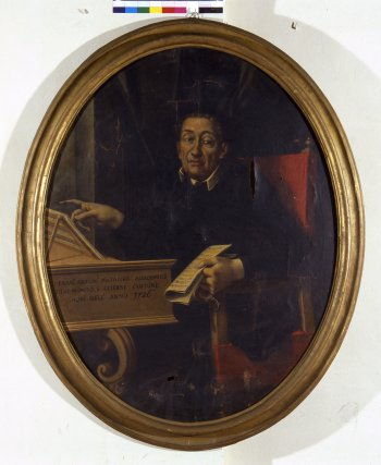 Italian opera singer and composer Francesco Antonio Pistocchi (1659—1726)